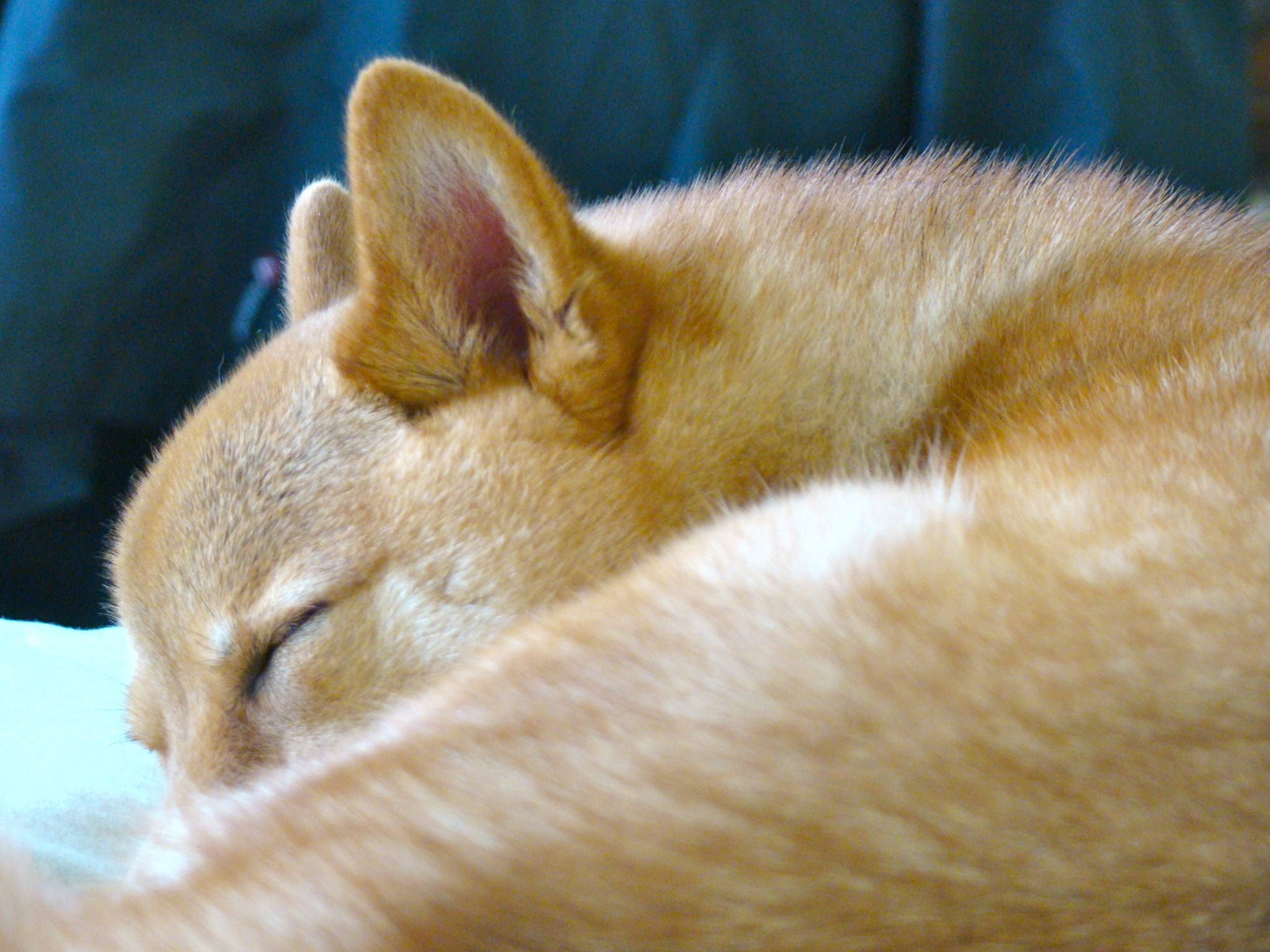 taken during taro the shiba's recent trip to san francisco to visit zuko the shiba's pack. more of taro the shiba on his blog: or follow taro on twitter